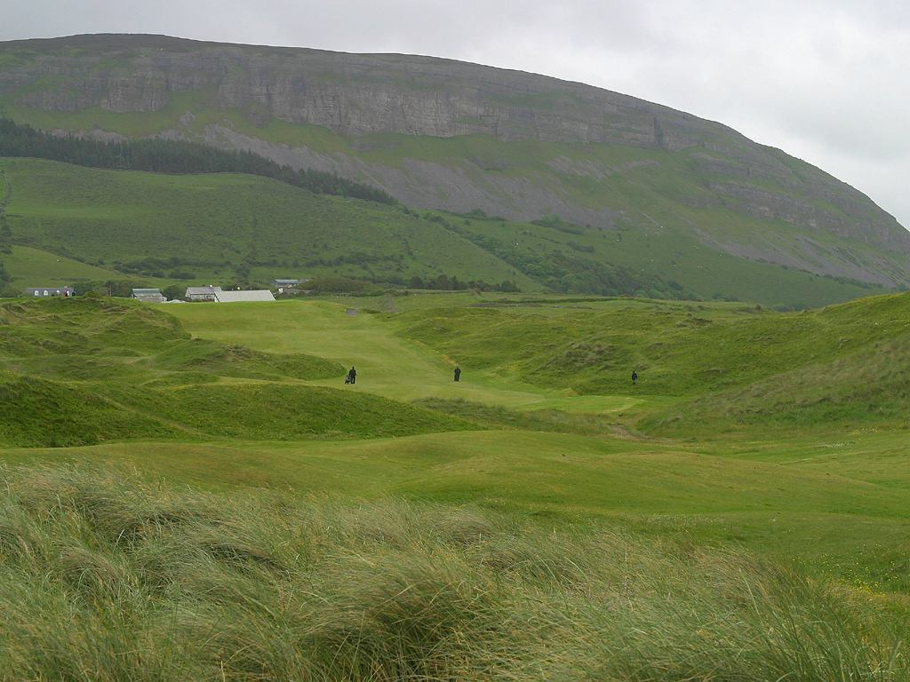 The Strandhill Golf Course in Strandhill, a town in County Sligo, Ireland. This photo is of the fifteenth hole (disputed, look source). The mountain in the background is Knocknarae.